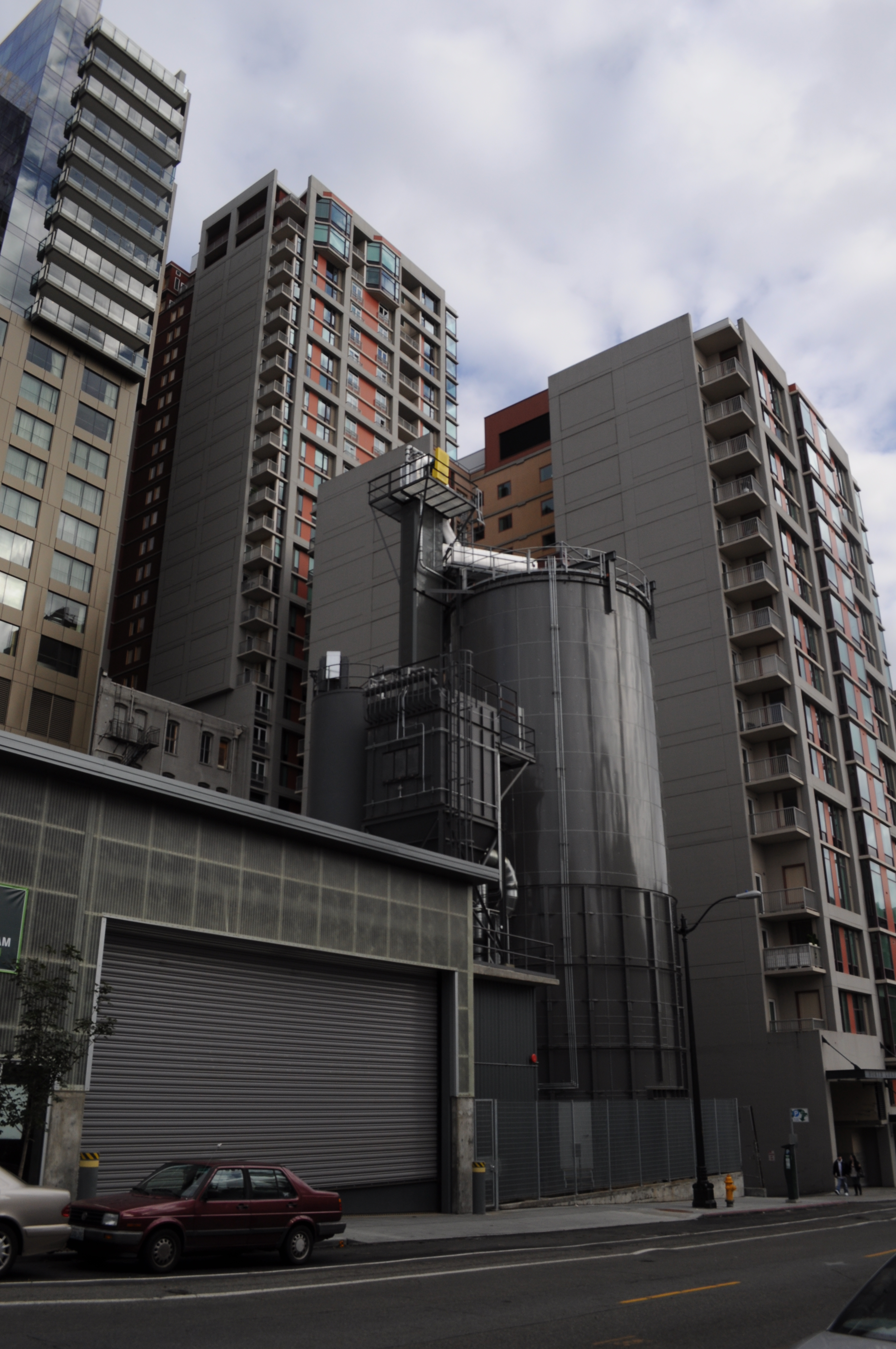 Biomass boiler, Seattle Steam Company, Western Avenue, Seattle, Washington, U.S.A.